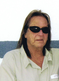 George Jung in prison